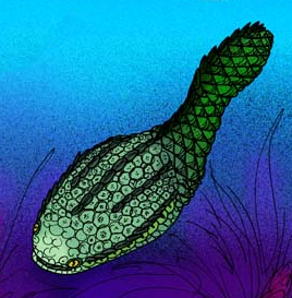 crop of File:Astraspis desiderata.jpg